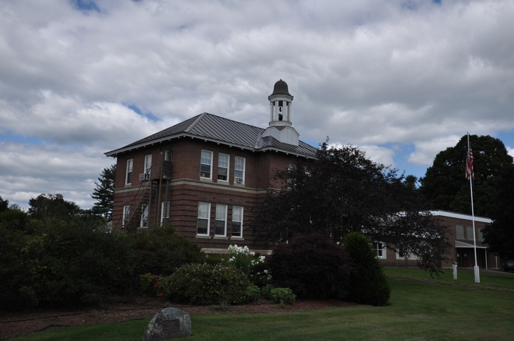 Town Hall, (North) Haverhill, NH